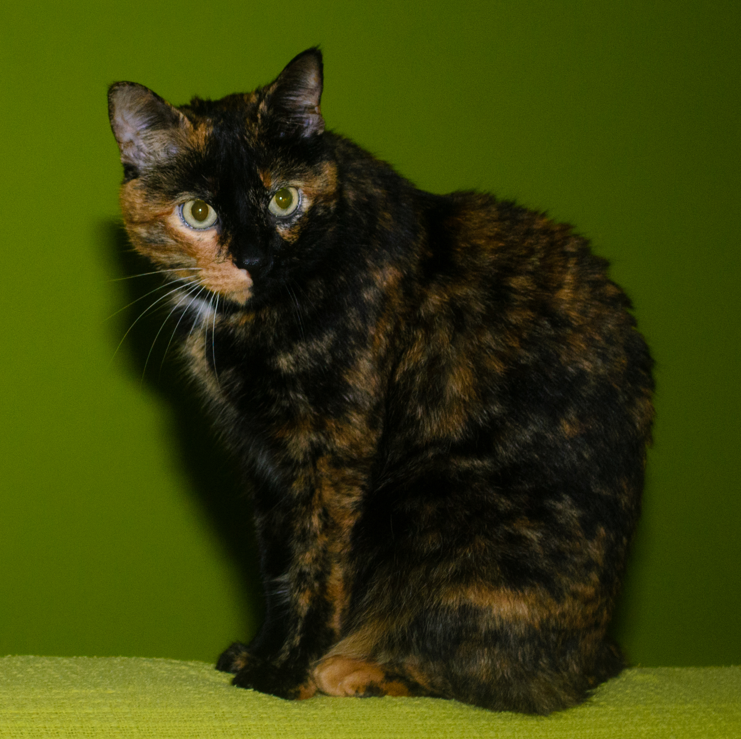 Kira, adult tortoise shell cat.